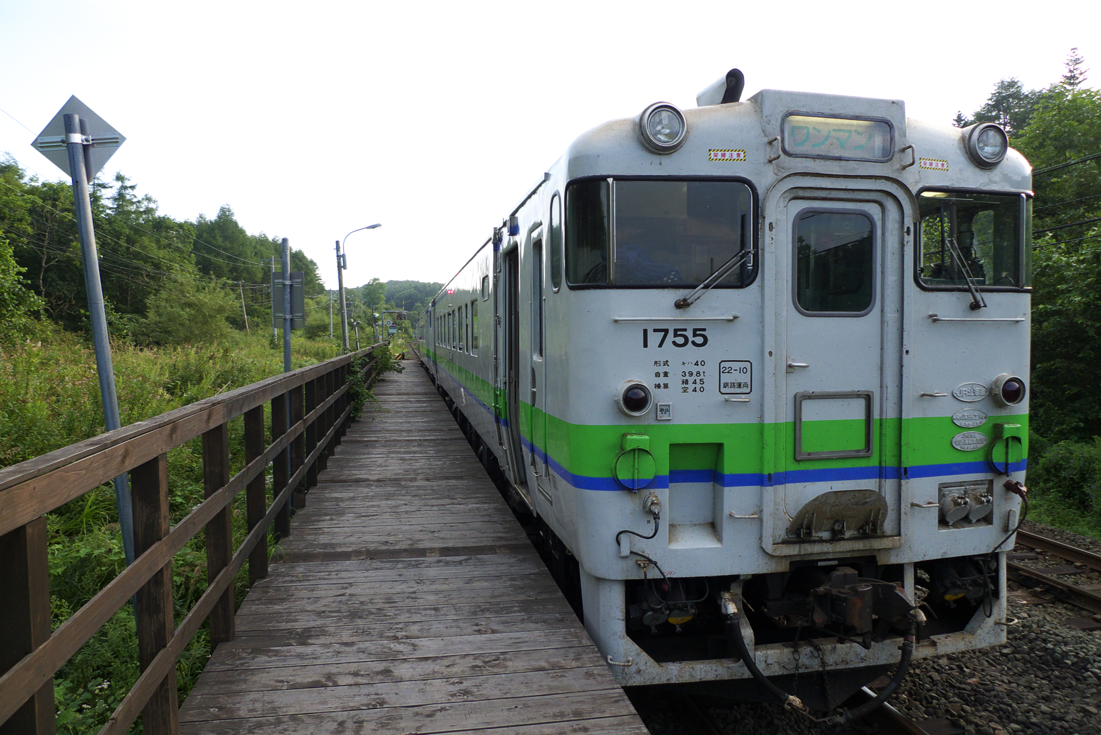 Platform at Furuse Station on the JR Hokkaido Nemuro Main Line in Shiranuka Town, Hokkaido, Japan